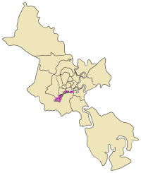 position of district 8 in an outline of the metropolitan area of HCMC (Ho Chi Minh City, Vietnam) - ISO code VN-F-HC. Keywords: map, outline, city, Ho Chi Minh City, HCMC, HCM, district 8, quan 8.